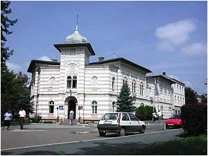 Center of Gradiska Municipality.